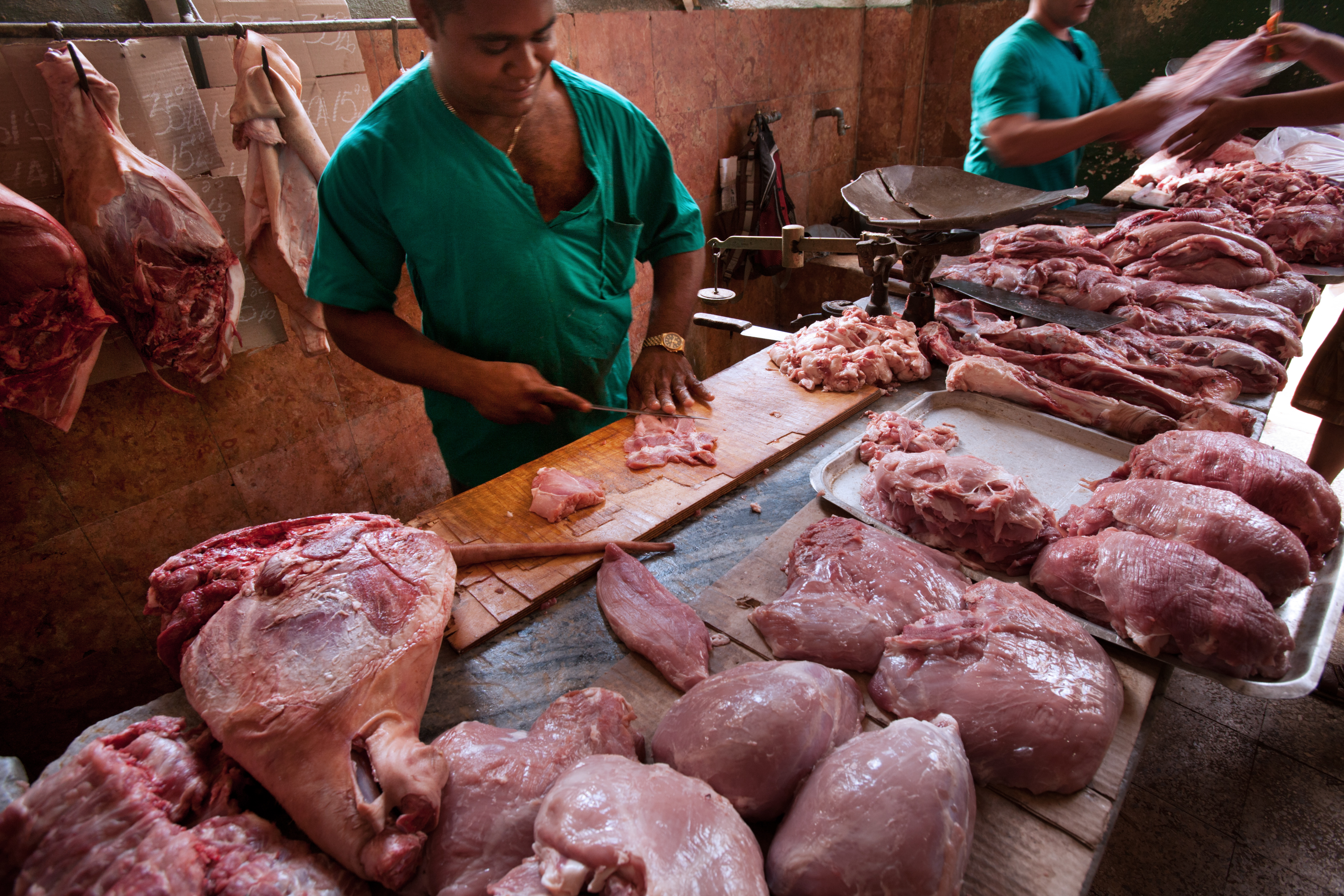 Meat Market in Havana (La Habana), Cuba